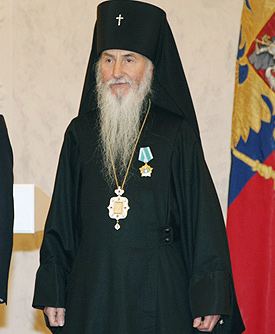 THE KREMLIN, MOSCOW. National Unity Day Reception. First Deputy of the President of the Bishops' Synod of the Russian Orthodox Church Abroad Archbishop Mark of Berlin, Germany and Great Britain was awarded the Order of Friendship.